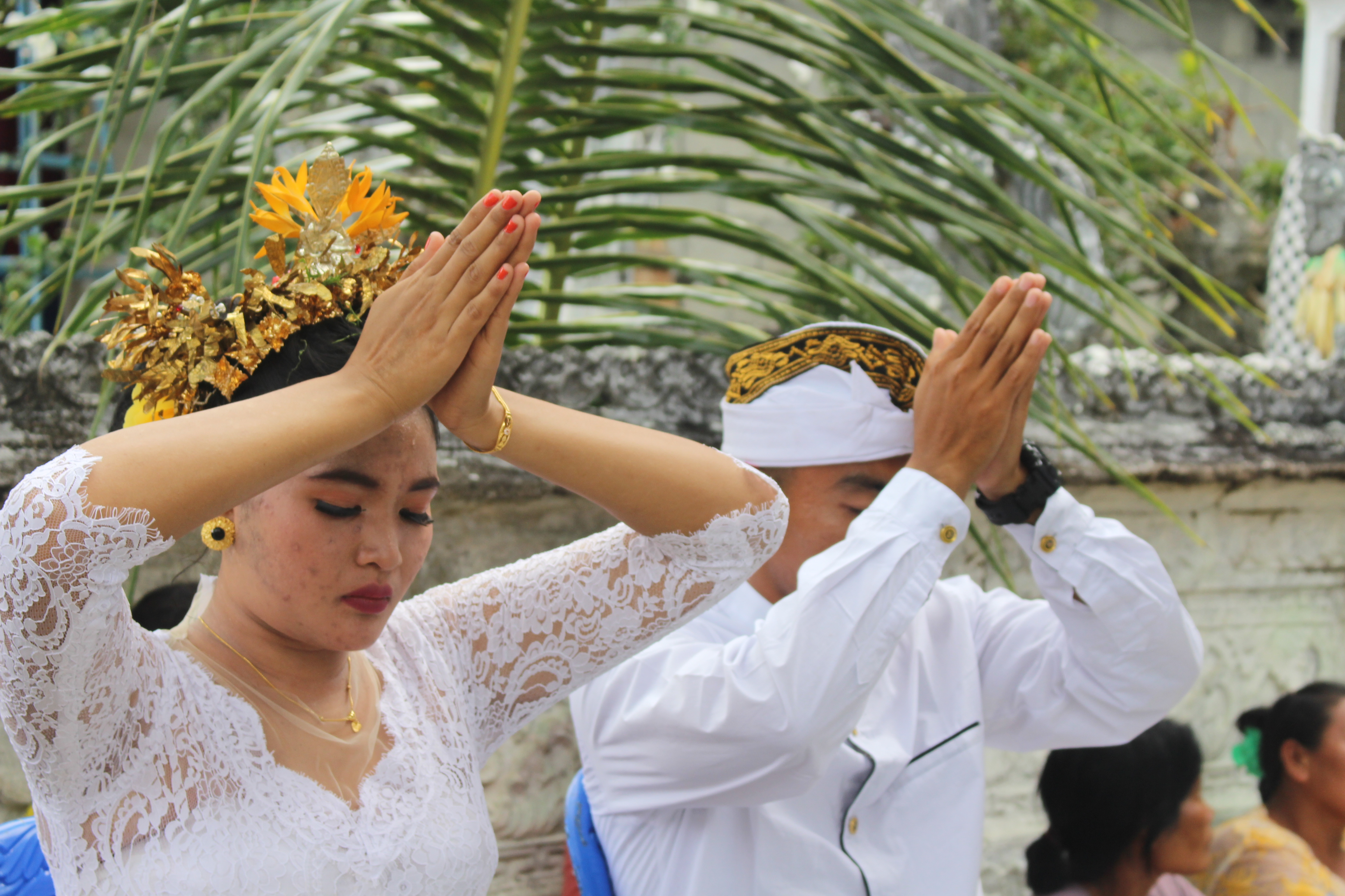 Kegiatan persembahyangan masyrakat Hindu Bali di suatu desa di Sulawesi Tengah.